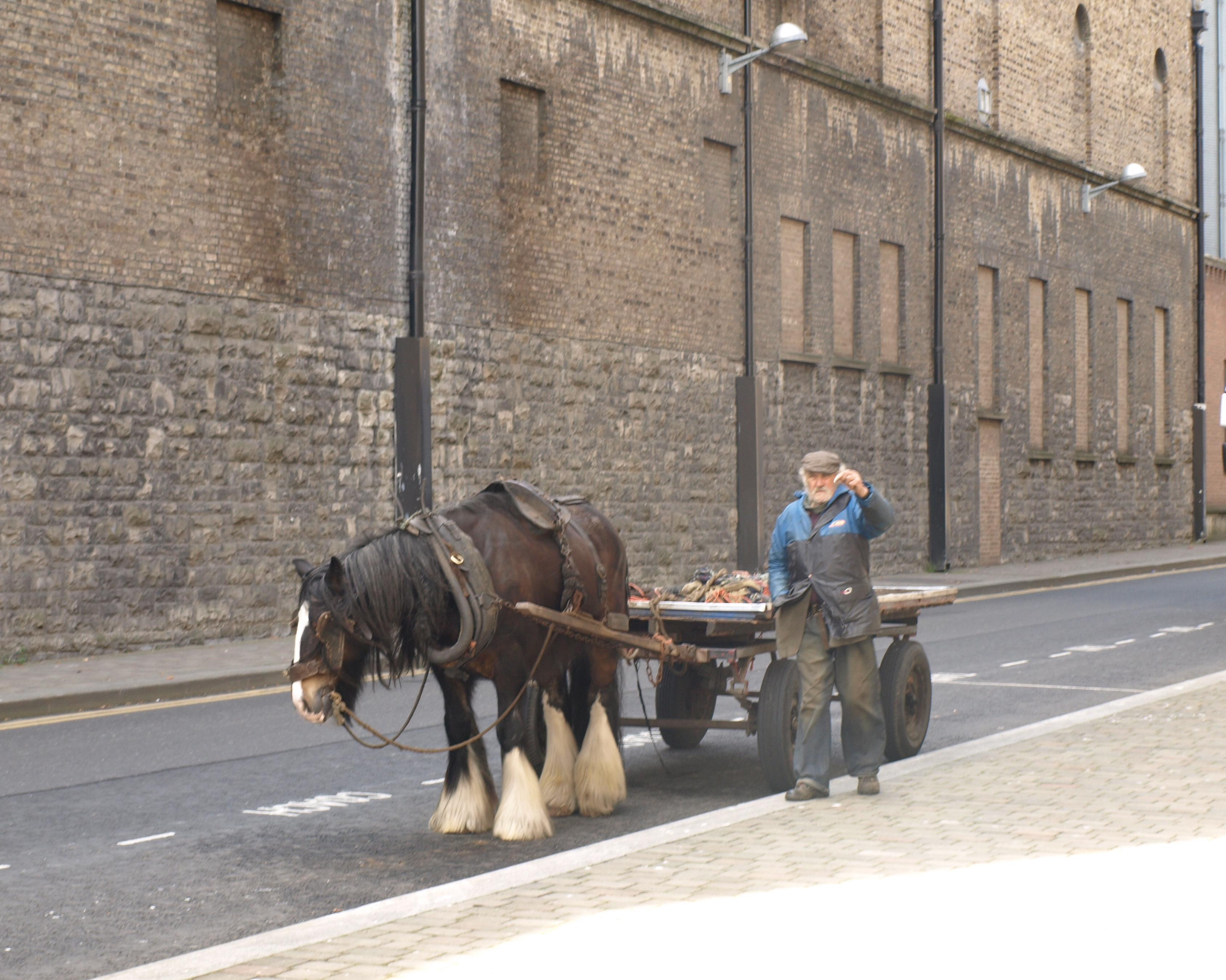 Rag and bone man in Dublin, Ireland.